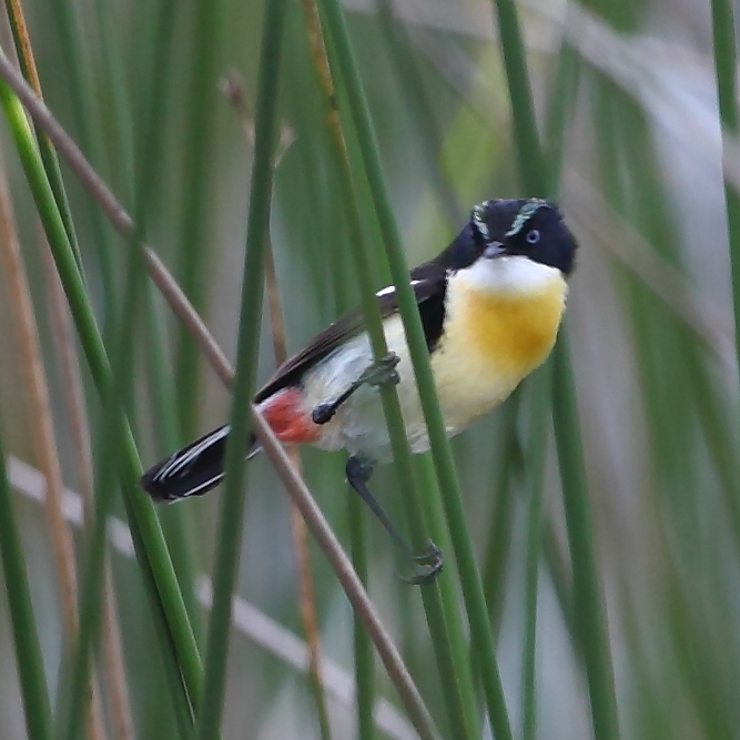 Tachuris rubrigastra_Many-colored Rush Tyrant at Lagoa dos Patos - RS -Brazil